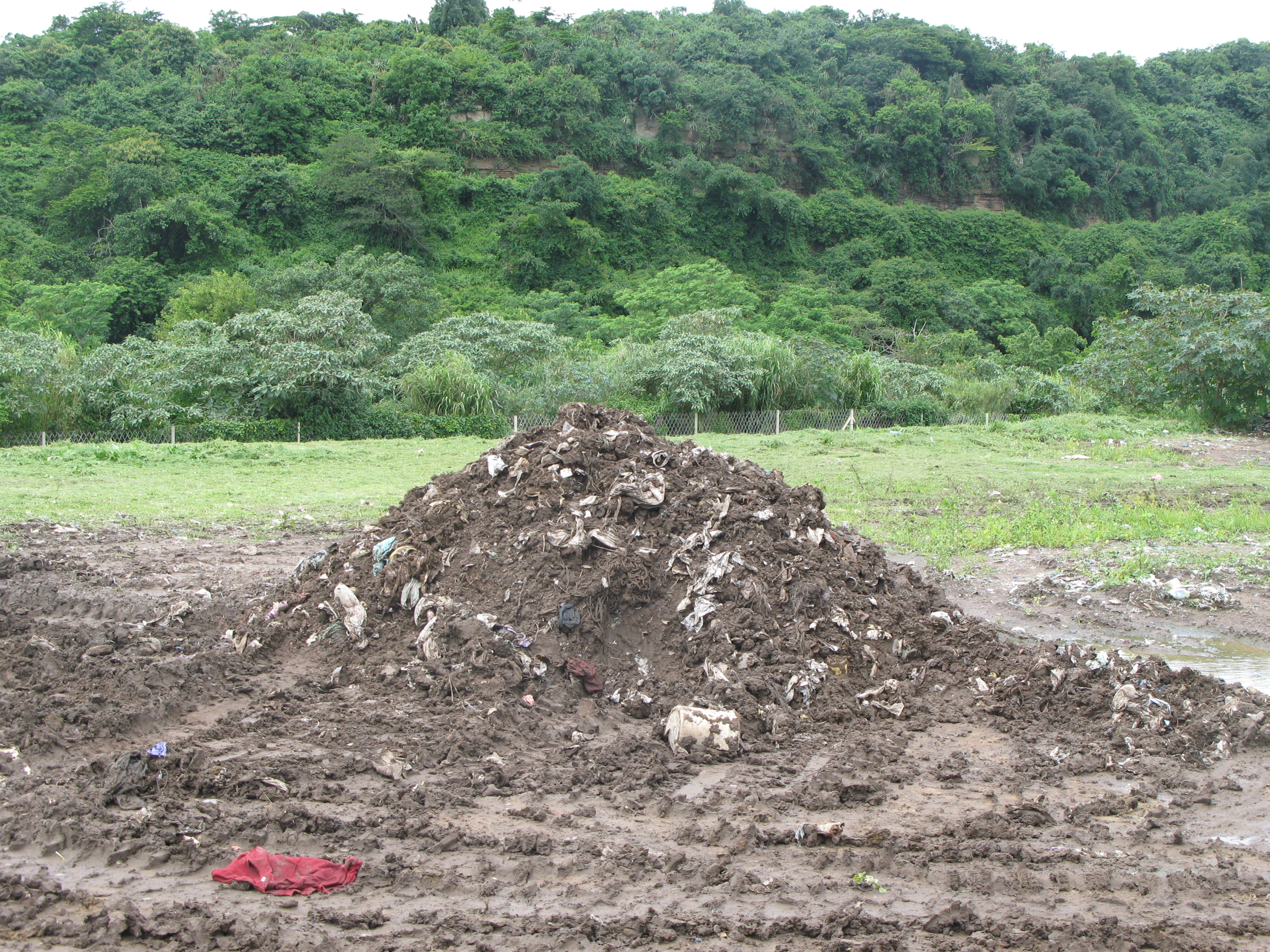 Note lots of plastic material from menstrual pads